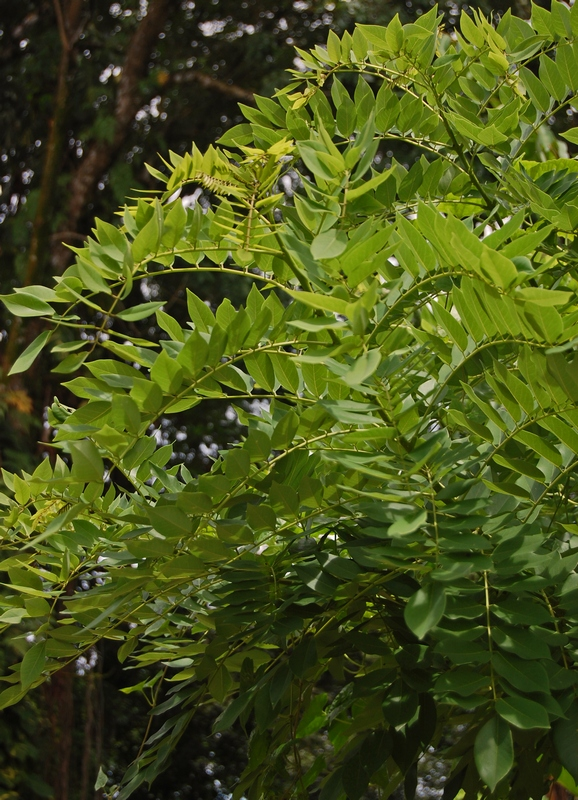 Gliricidia sepium leaves. Bogor, West Java, Indonesia